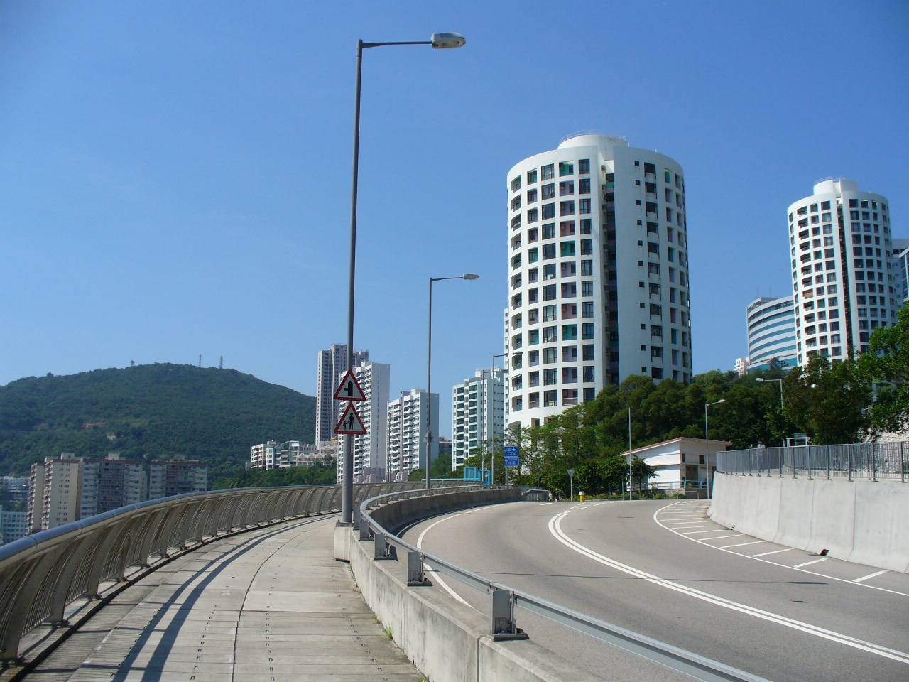 Cyberport Road near Sha Wan Drive.